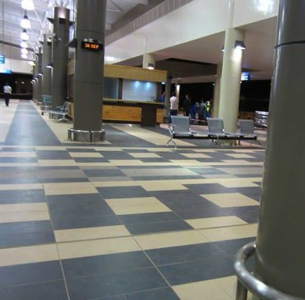 Kisumu international Airport